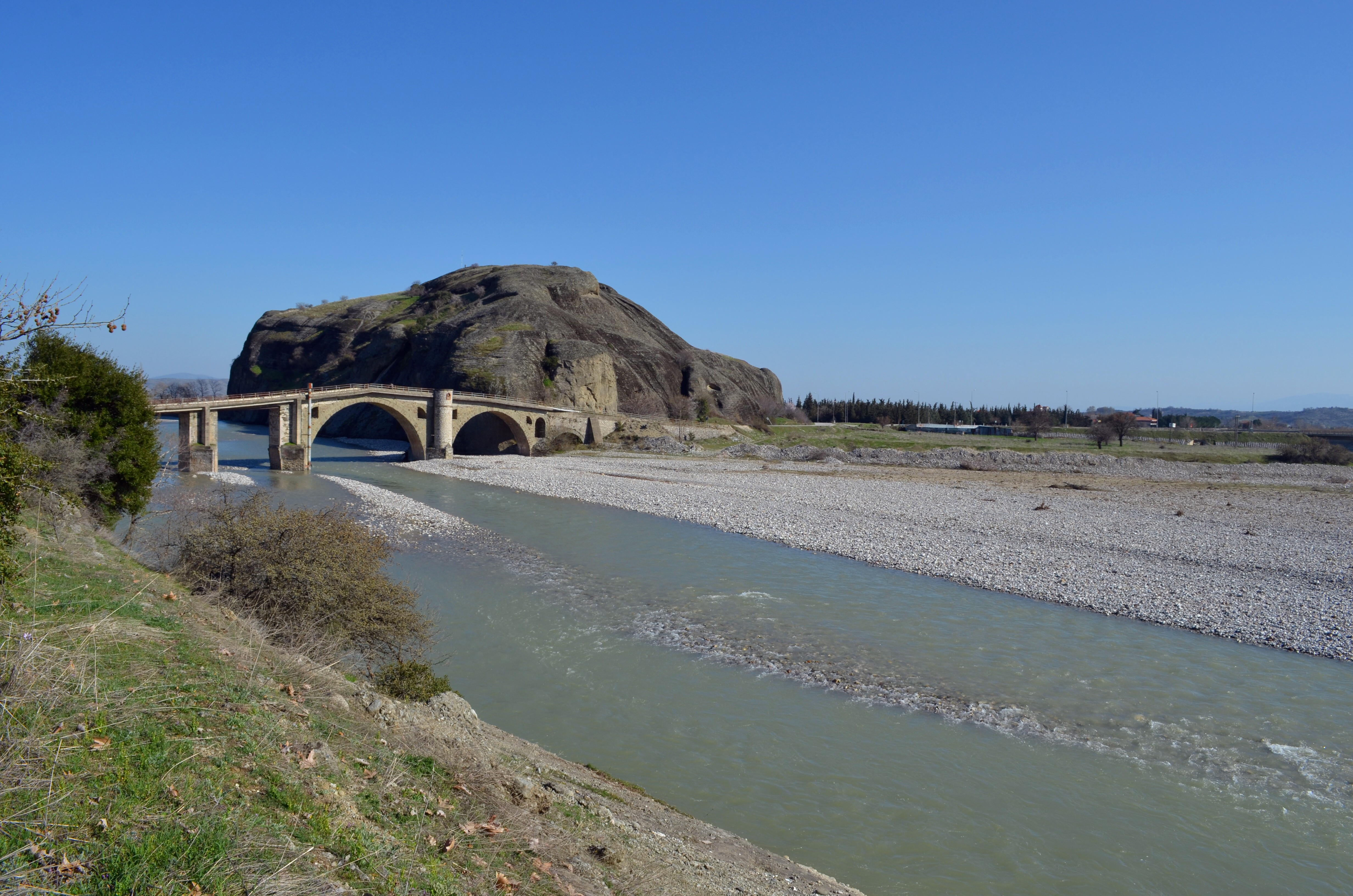 Pineios river east of Kalambaka near the village of Sarakina and Sarakina's bridge built on the 16th century by Vissarion then bishop of Larissa